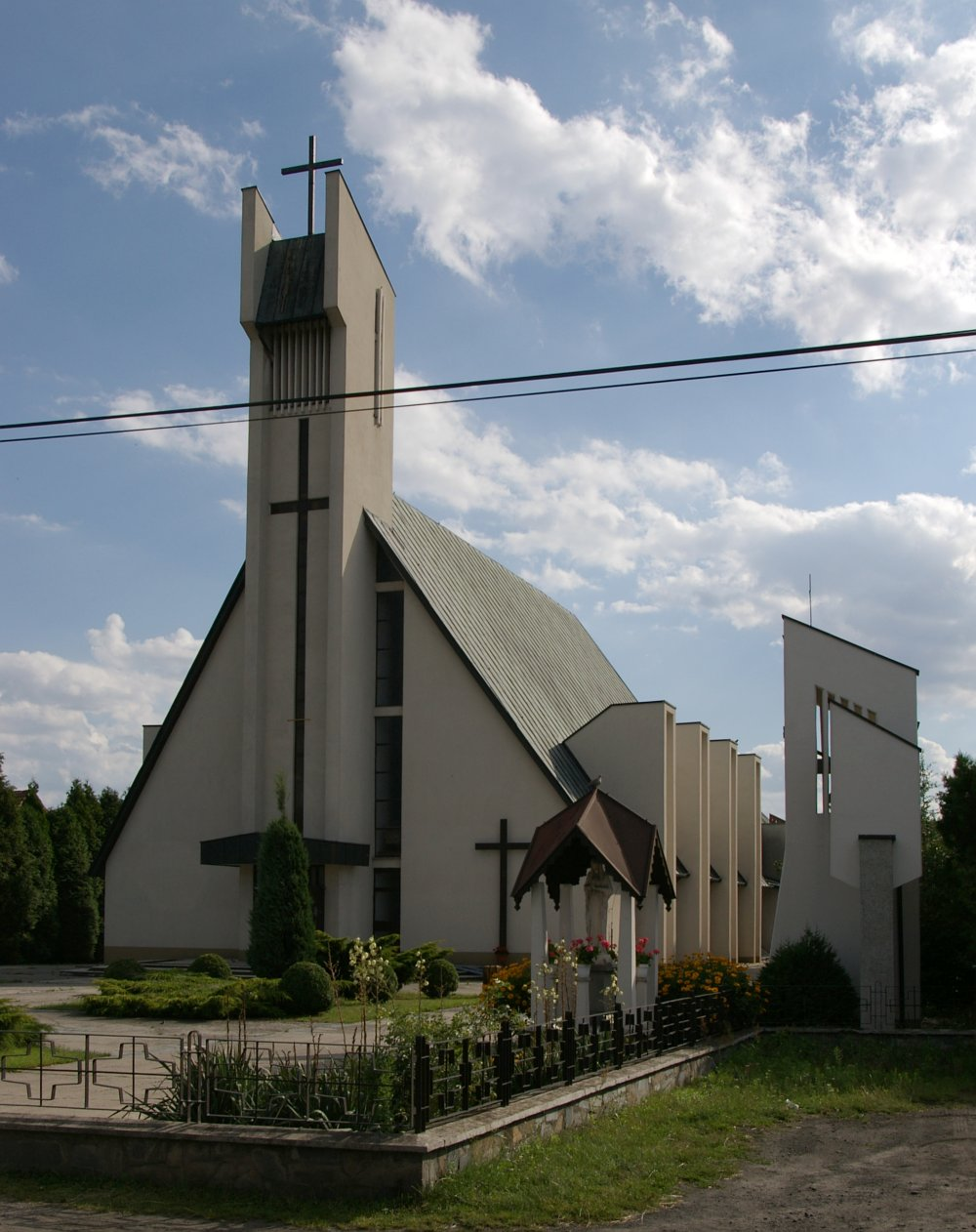 Saint Florian Church in Zawada, Opole voivodship, Poland